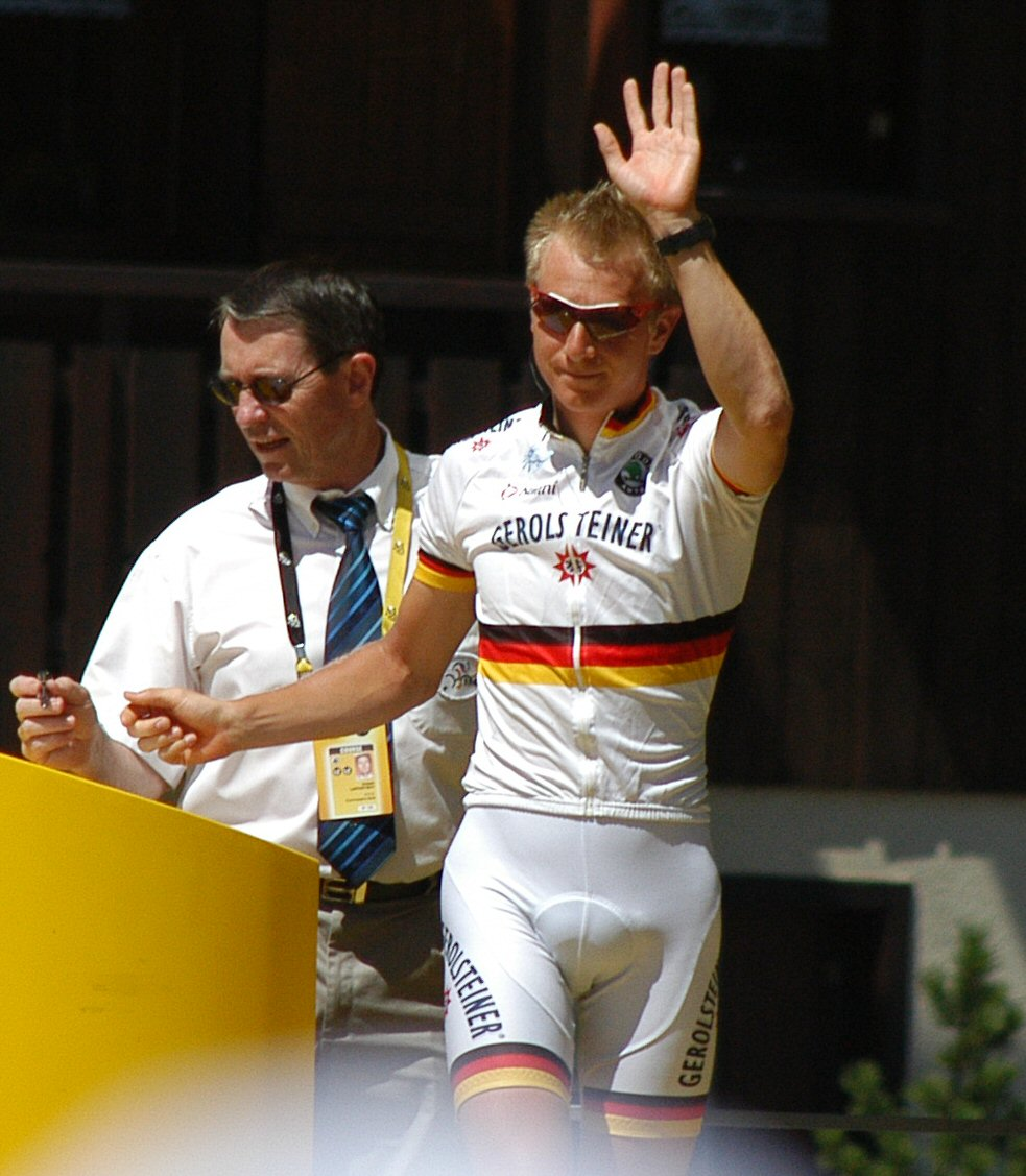 Fabian Wegmann at the start of stage 8 in Le Grand Bornand, Tour de France 2007.